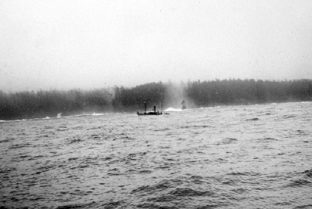 Wreck of the SS Valencia, seen from one of the rescuing ships on January 23, 1906.